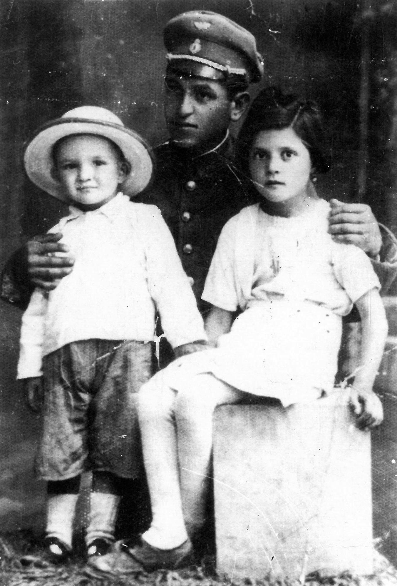 Gerasim Todorov wih his children